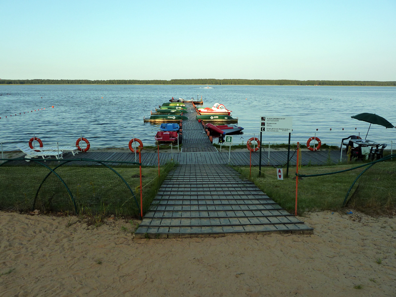 Relaxation complex "Stropu Vilnis" in Daugavpils, Latvia. 2010.